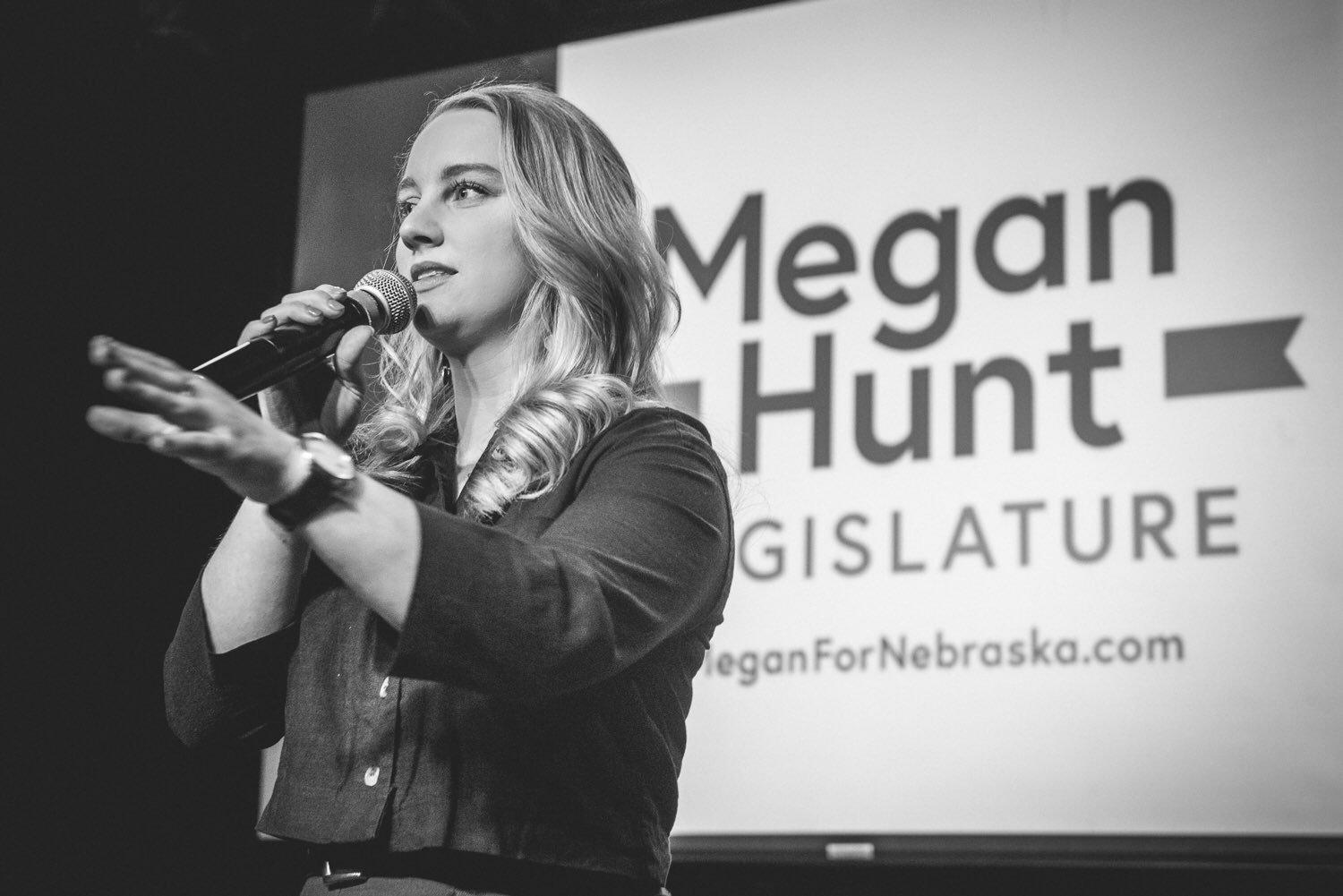 Megan Hunt speaking